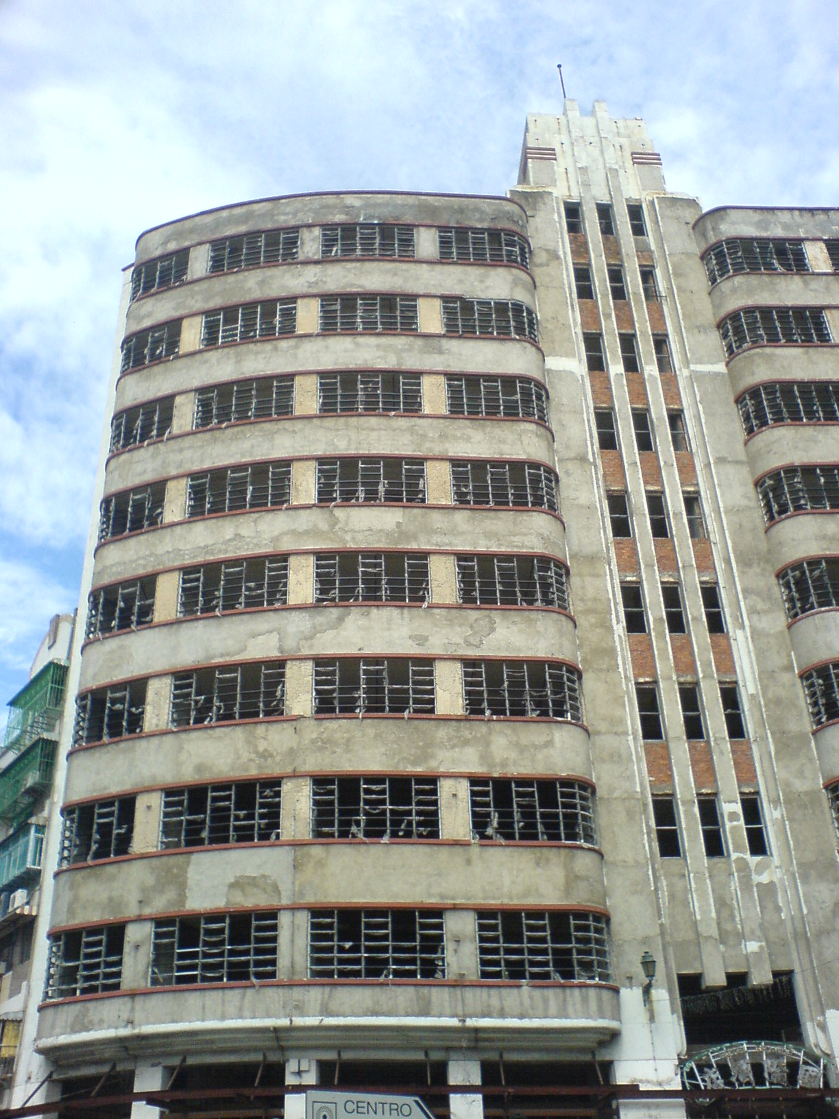 International_Hotel_In_Macau